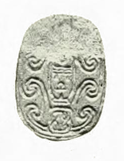 Blue-green glazed steatite scarab bearing the cartouche of pharaoh Djedankhre (Montemsaf): - Ḏd-ˁnḫ-Rˁ Unknown provenience, 16th dynasty, Second intermediate period. London, British Museum EA 40687.